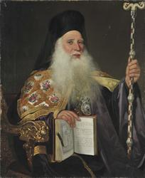 Benedict Kraljevic (Kralidis)